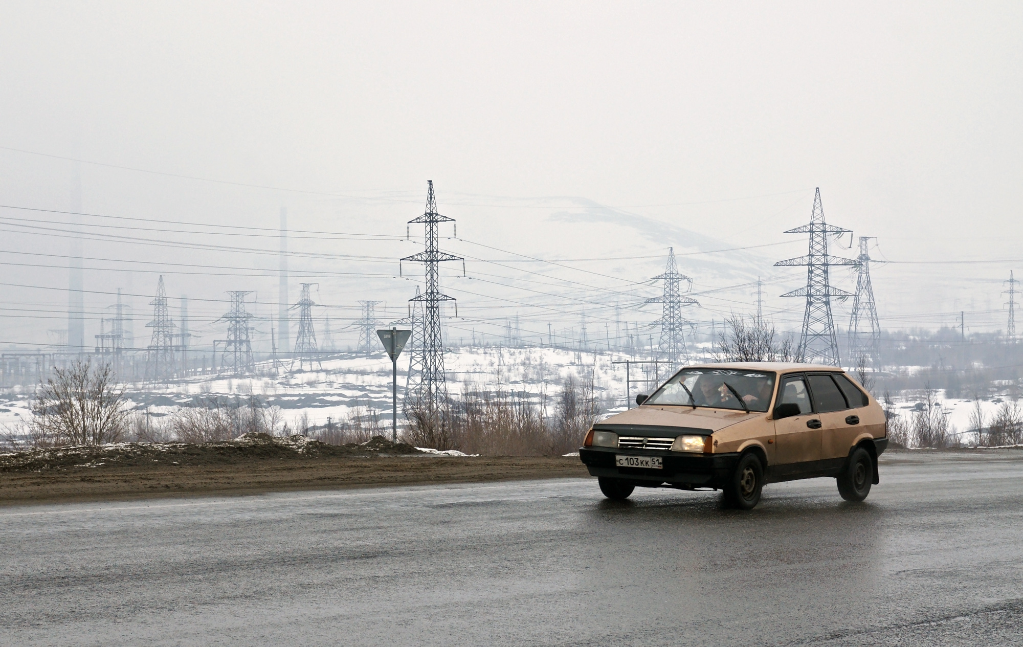 Lada driving in M18-motorway in Russia near Monchegorsk.